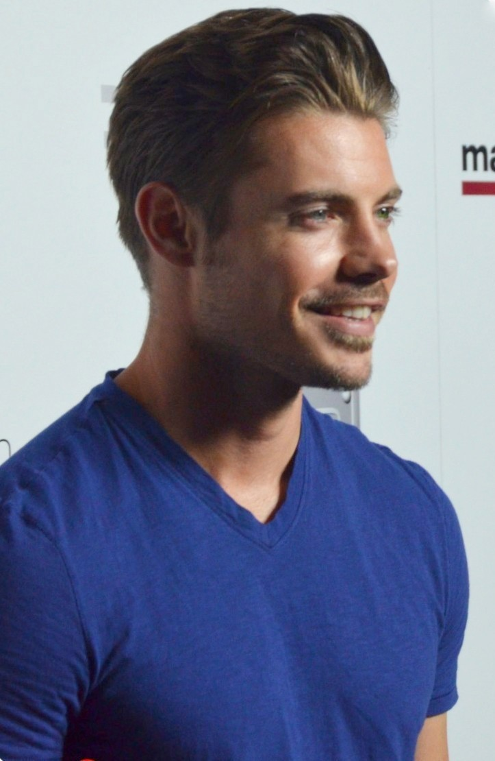 Josh Henderson by Mingle Media TV and Red Carpet Report host, Brandi Chang, were invited to cover the 7th Annual Celebrity Bowl benefiting Matt Leinart Foundation at the Lucky Strike bowling alley in Hollywood.